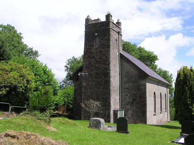 Boho Church of Ireland It is located at Aghaherrisk